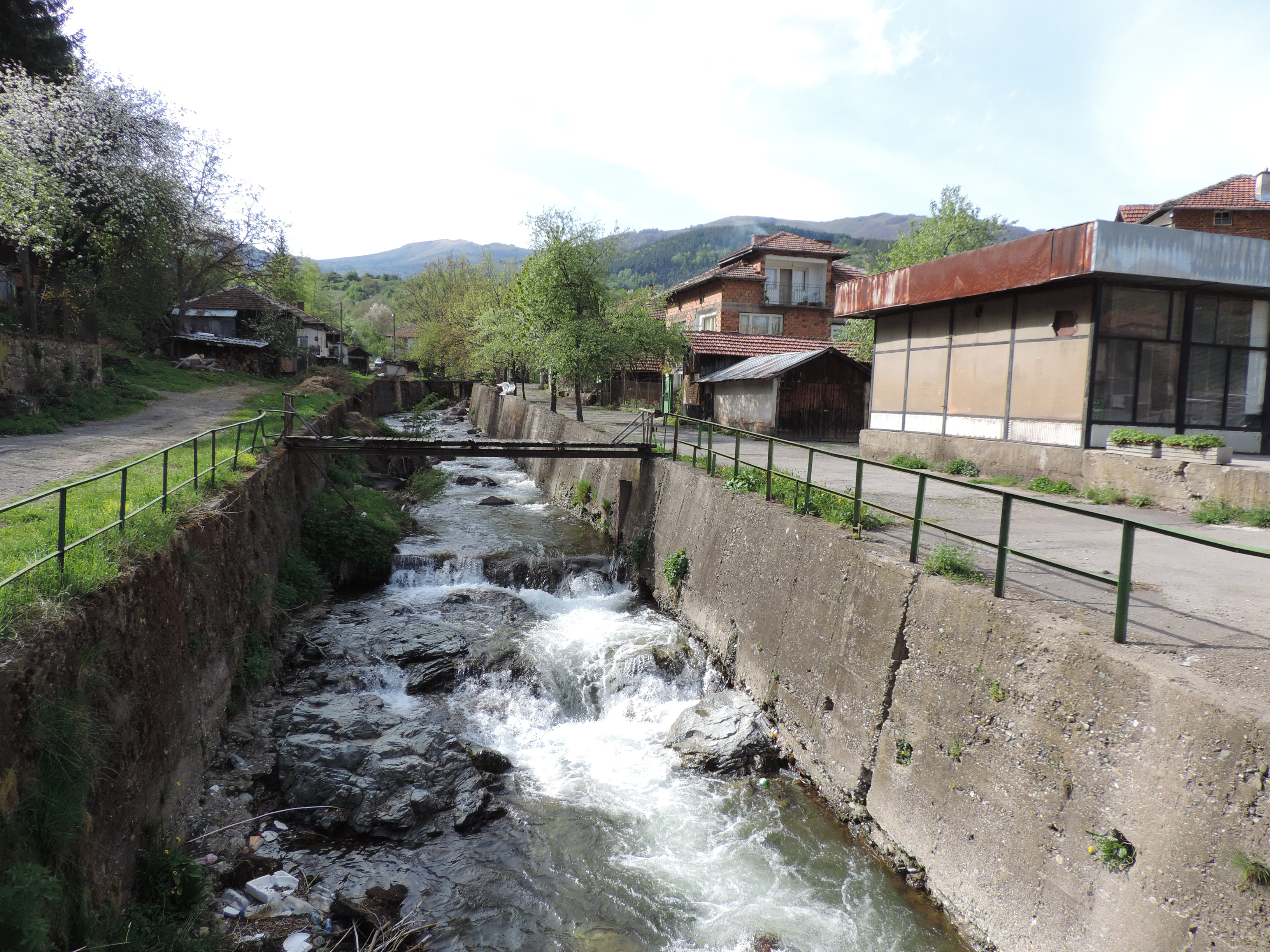 River Ogosta through village Martinovo, Montana Province, Bulgaria